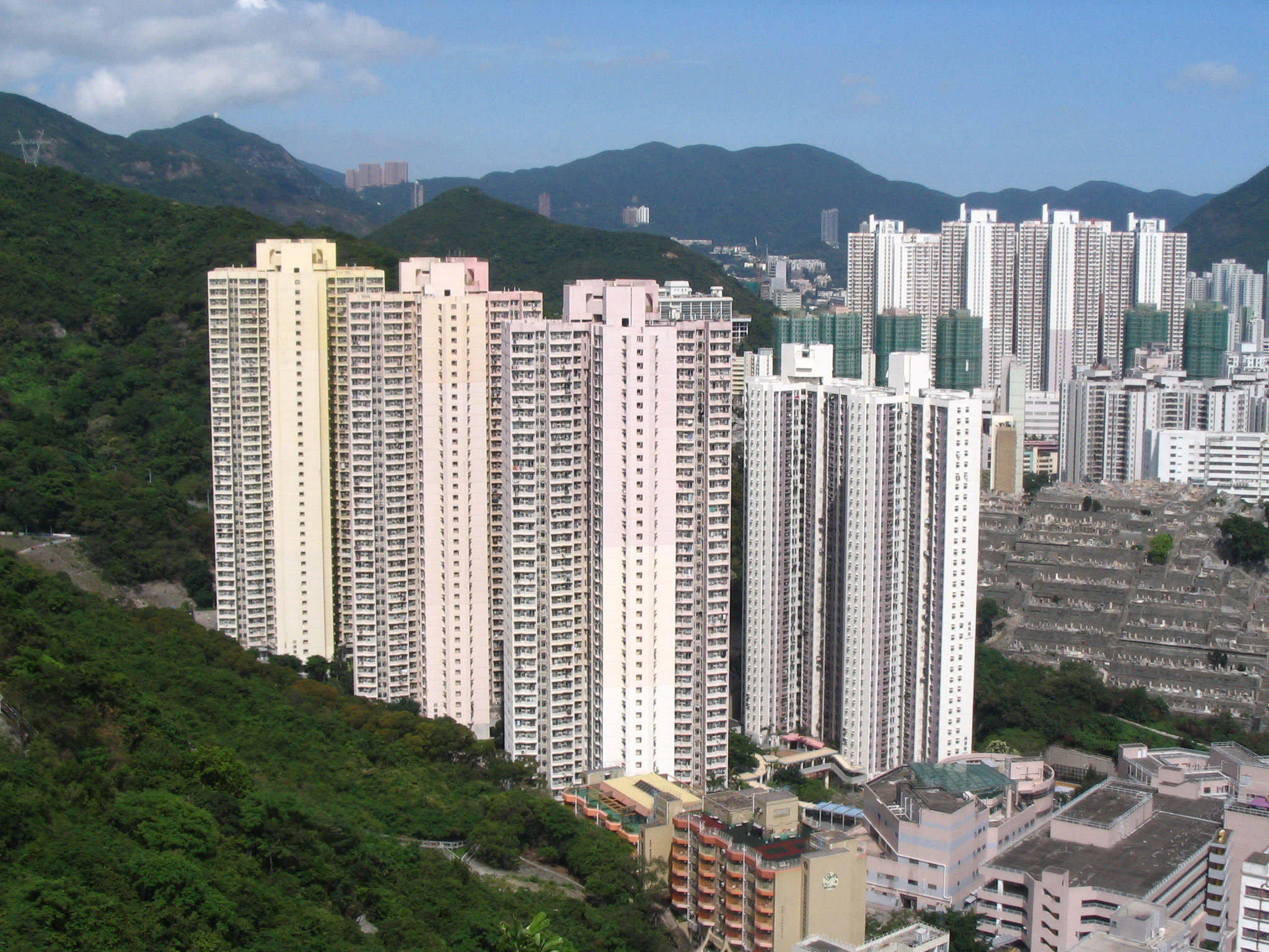 Photo of Tin Wan Estate